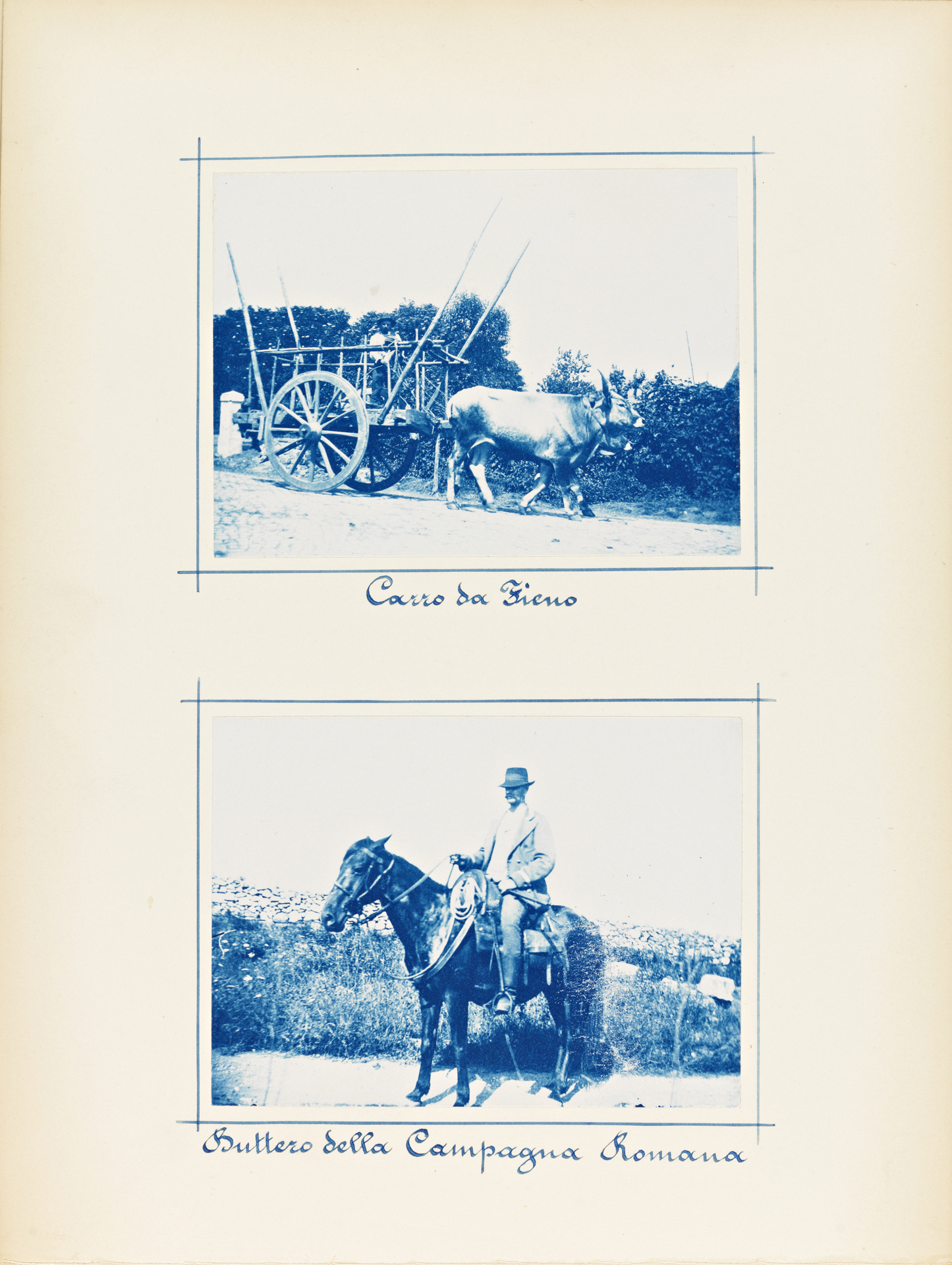 Tittel / Title: Carro da Fieno. Buttero della Campagna Romana. / Høyvogn. Gjeter/cowboy på den italienske landsbygda. [Roma Settembre 1899] Motiv / Motif: Cyanotypi. Dato / Date: september 1899 Fotograf / Photographer: ukjent / unknown Sted / Place: Italia, Roma Eier / Owner Institution: Nasjonalbiblioteket / National Library of Norway Lenke / Link: Bildesignatur / Image Number: bldsa_FAalb002_35